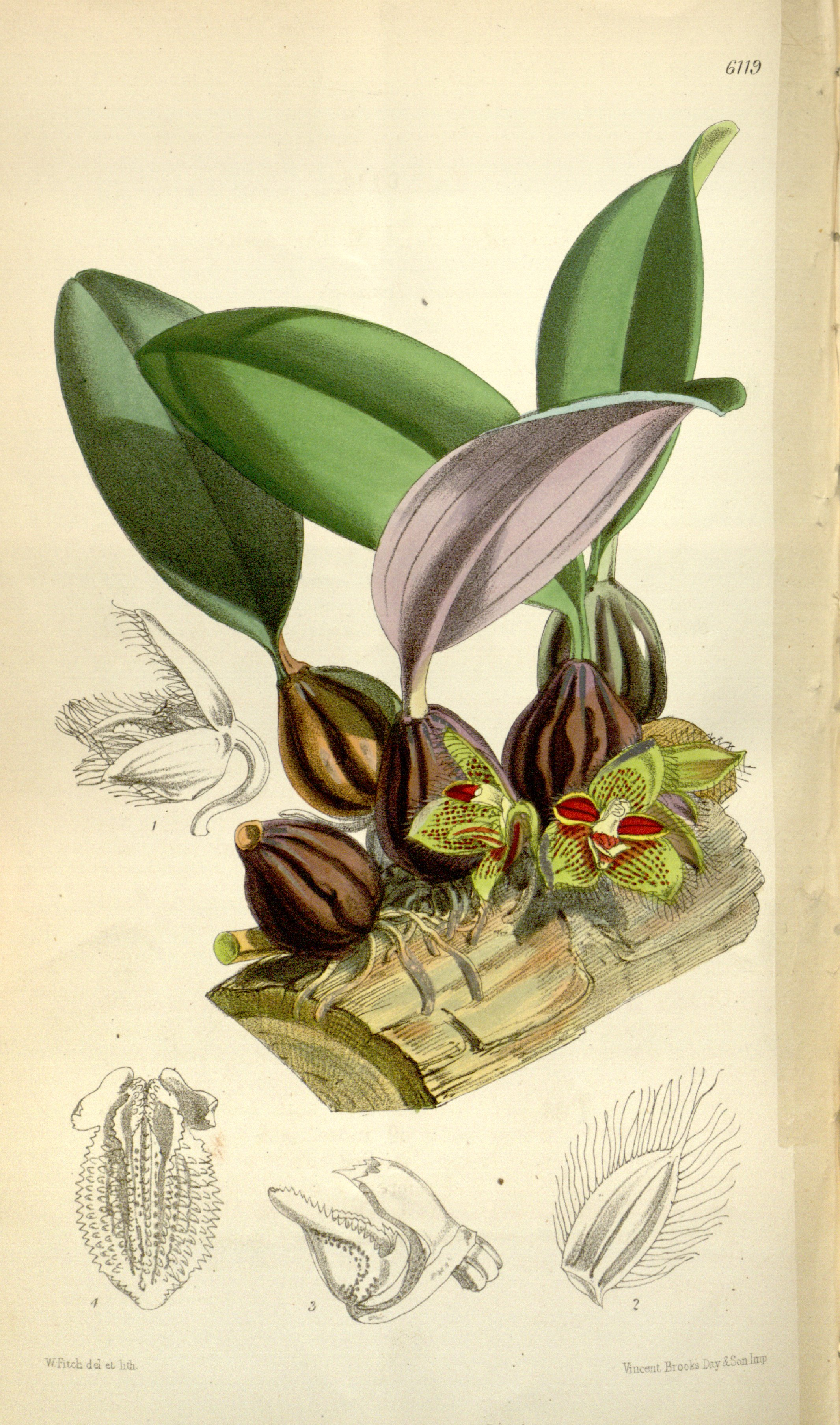 Illustration of Bulbophyllum dayanum (spelled by Hooker as Bolbophyllum dayanum)